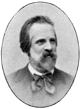 Image scanned from the book "Svenskt Porträttgalleri XX - Arkitekter, Bildhuggare, Målare m.fl. " ("Swedish Portrait Gallery XX - Architects, Sculptors, Painters, ") published 1901